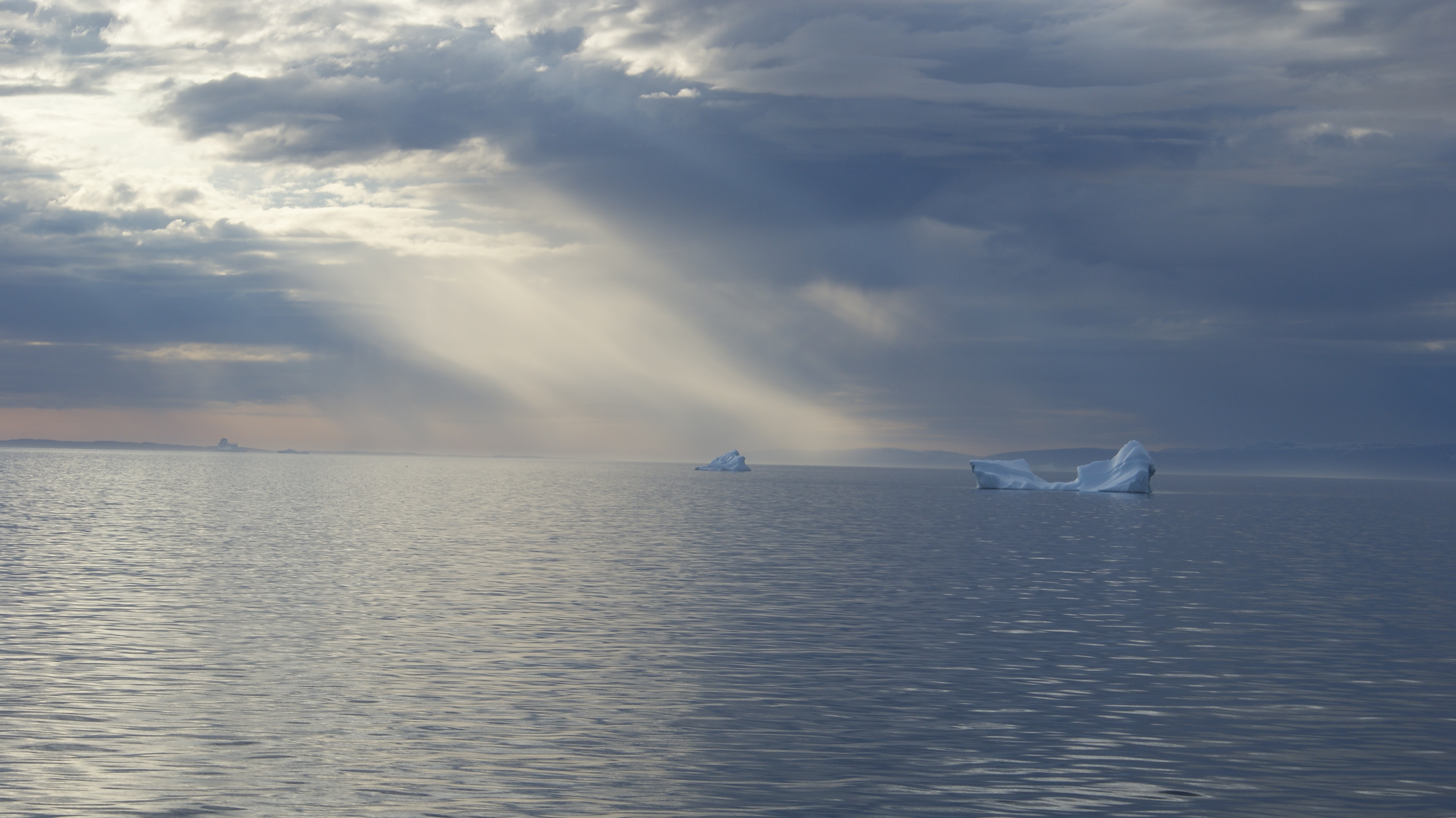 Central Disko Bay, Greenland. Weather about to change; rain on the way. Photographed from Sarfaq Ittuk of Arctic Umiaq Line.